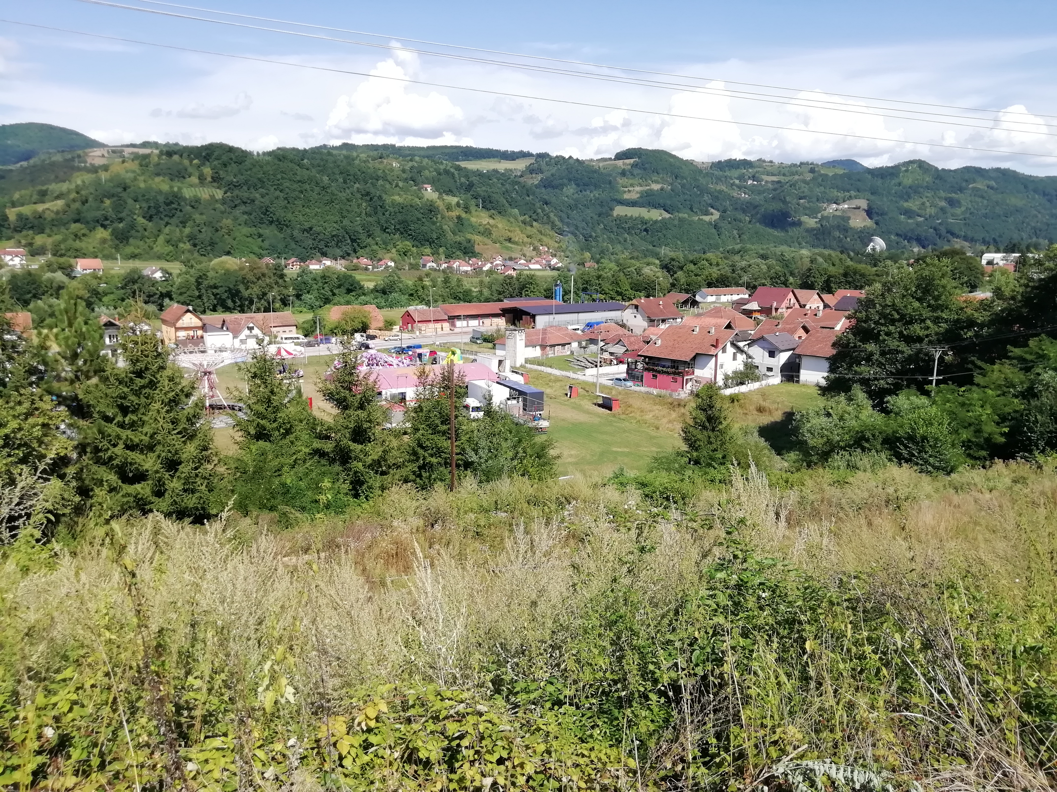 Panoramic view of Prilike, August 2019